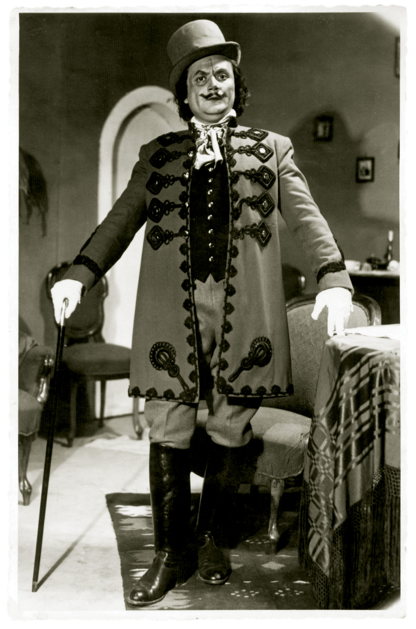 Stanoje Dušanović (1906-1987), actor, director, secretary, director of the Drama, deputy manager, as Ružičić in the play "Pokondirena tikva" written by Jovan Sterija Popović, Serbian National Theatre, Novi Sad, 1939. Srpski (latinica): Stanoje Dušanović (1906-1987), glumac, reditelj, sekretar, direktor Drame, v. d. upravnika, kao Ružičić u "Pokondirenoj tikvi" Jovana Sterije Popovića, Srpsko narodno pozorište, Novi Sad, 1939. Српски (ћирилица): Станоје Душановић (1906–1987), глумац, редитељ, секретар, директор Драме, в. д. управника, као Ружичић у Покондиреној тикви Ј. С. Поповића, Српско народно позориште, Нови Сад, 1939.